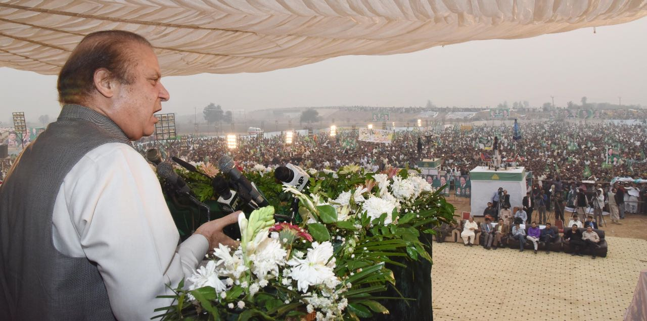 Prime Minister Nawaz Sharif addressing huge gathering in Sangla Hill at inauguration ceremony, Pakistan